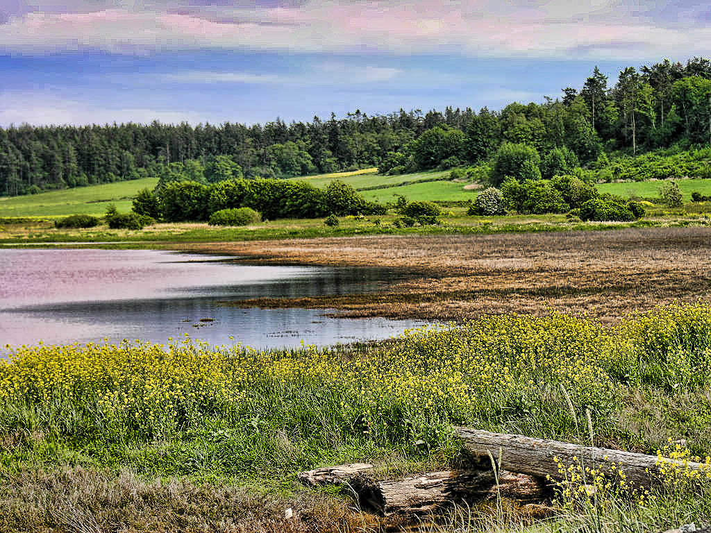 Whidbey Island: Swantown Lake, Looking East from Roadway